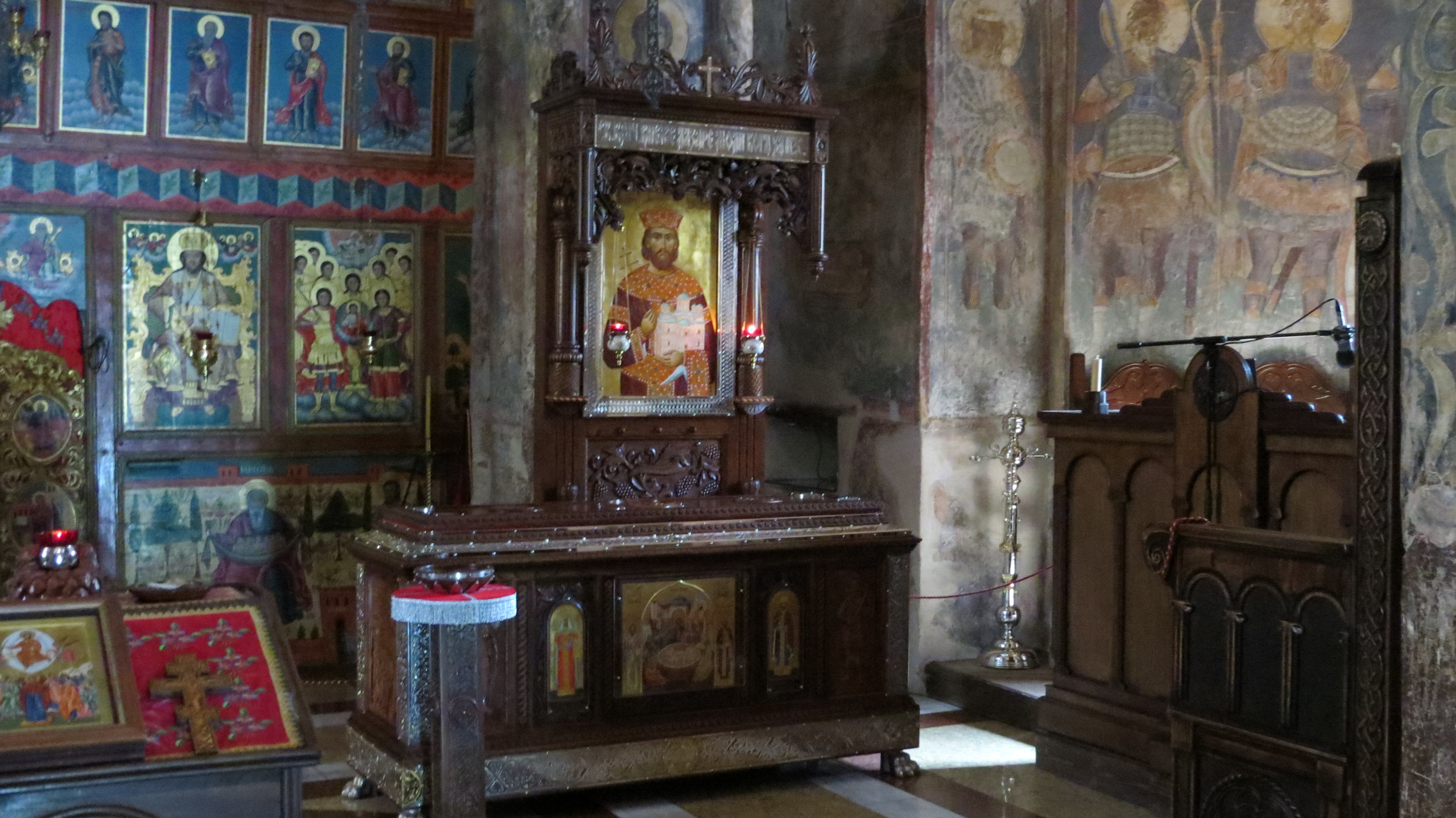 Tomb of Tsar Lazar (Lazar of Serbia), one of most notable Serbian medieval rulers and Serbian saint.